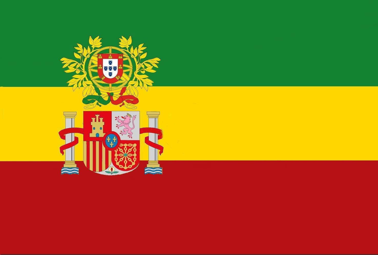 Flag proposal for the Iberian Union